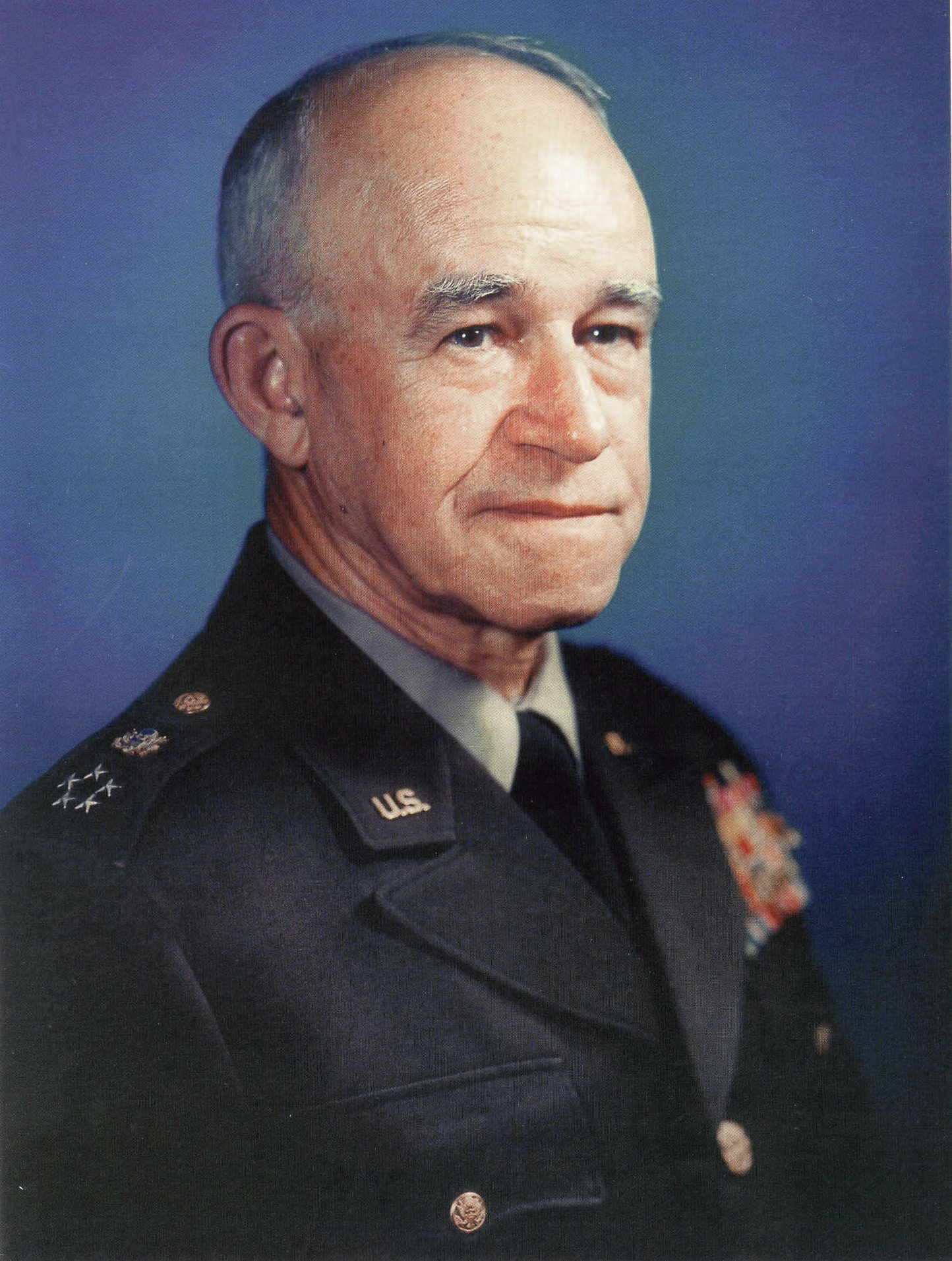 U.S. General of the Army Omar Bradley, 1st Chairman of the Joint Chiefs of Staff.